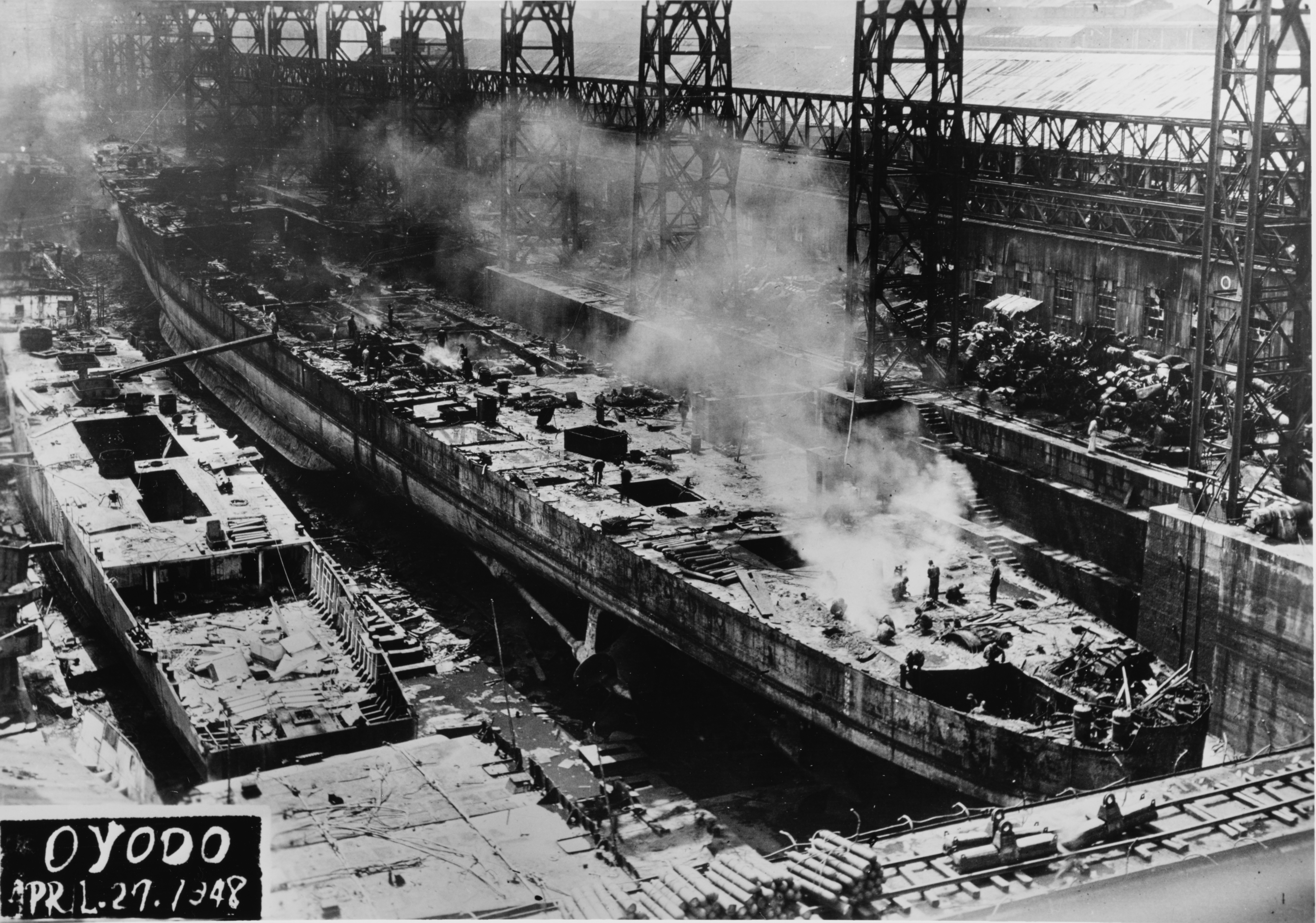 The light cruiser Oyodo being scrapped